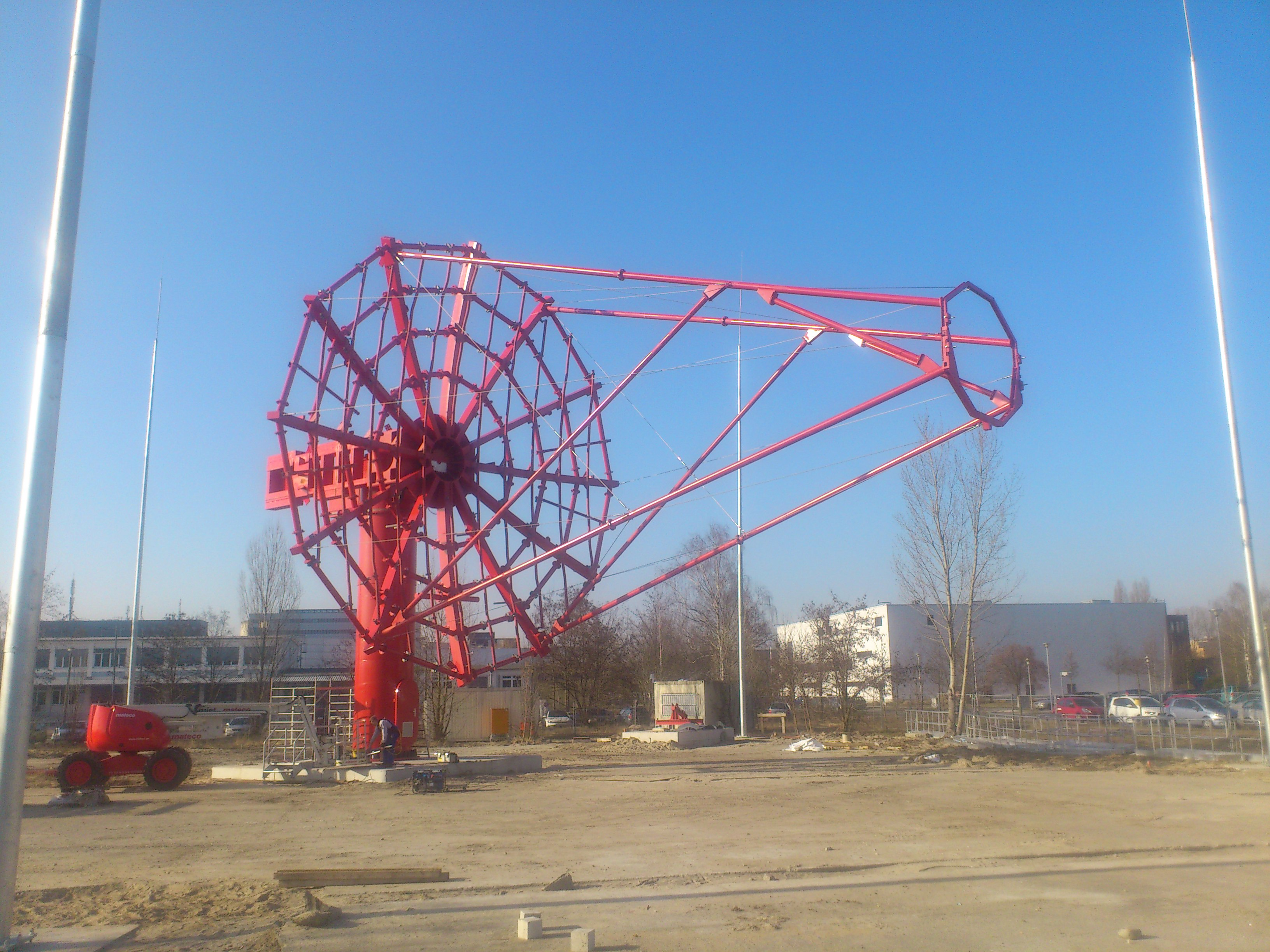 Cherenkov Telescope Array Medium Size Telescope prototype in Berlin-Adlershof during Construction, March 6, 2013